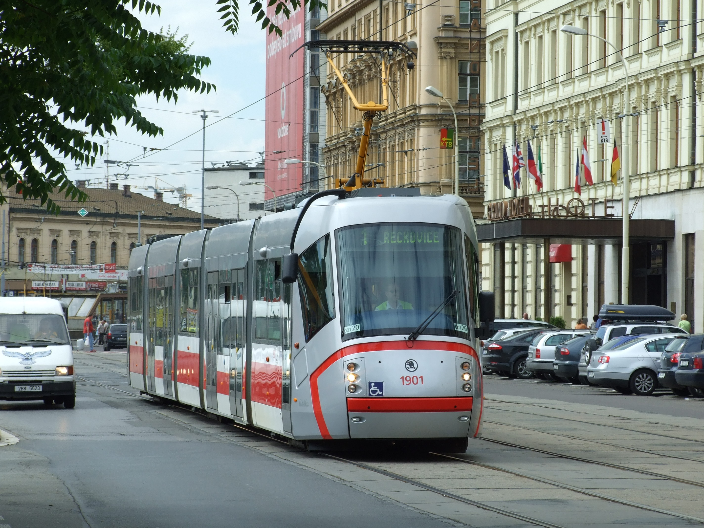 Tram model 13T heading from main train station (Hlavní nádraží) to Malinovské náměstí square.help